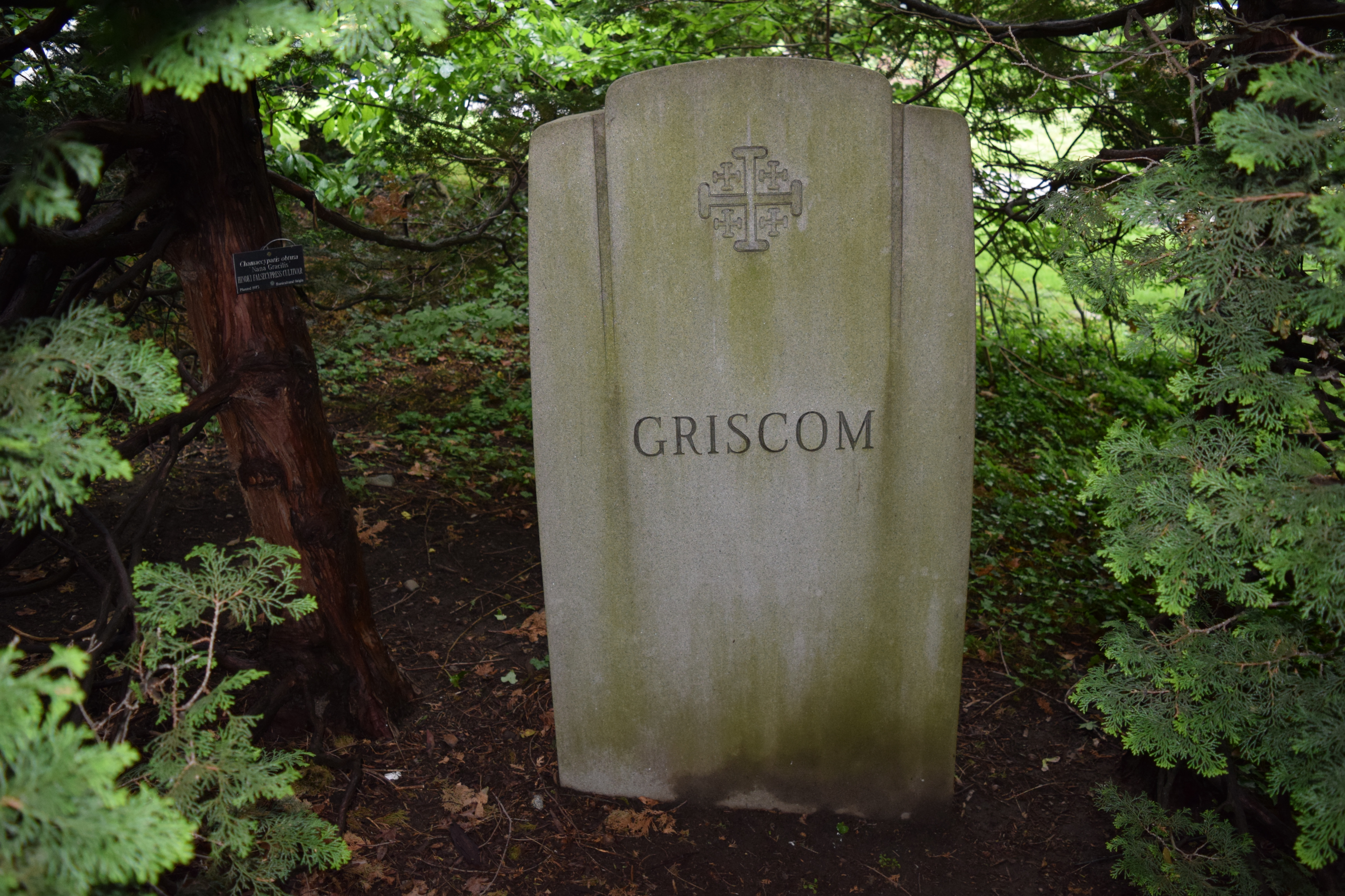 Griscom family grave marker, framed by Hinoki False Cypress (Chamaecyparis obtusa 'Nana Gracilis'). Inscribed, "Griscom"